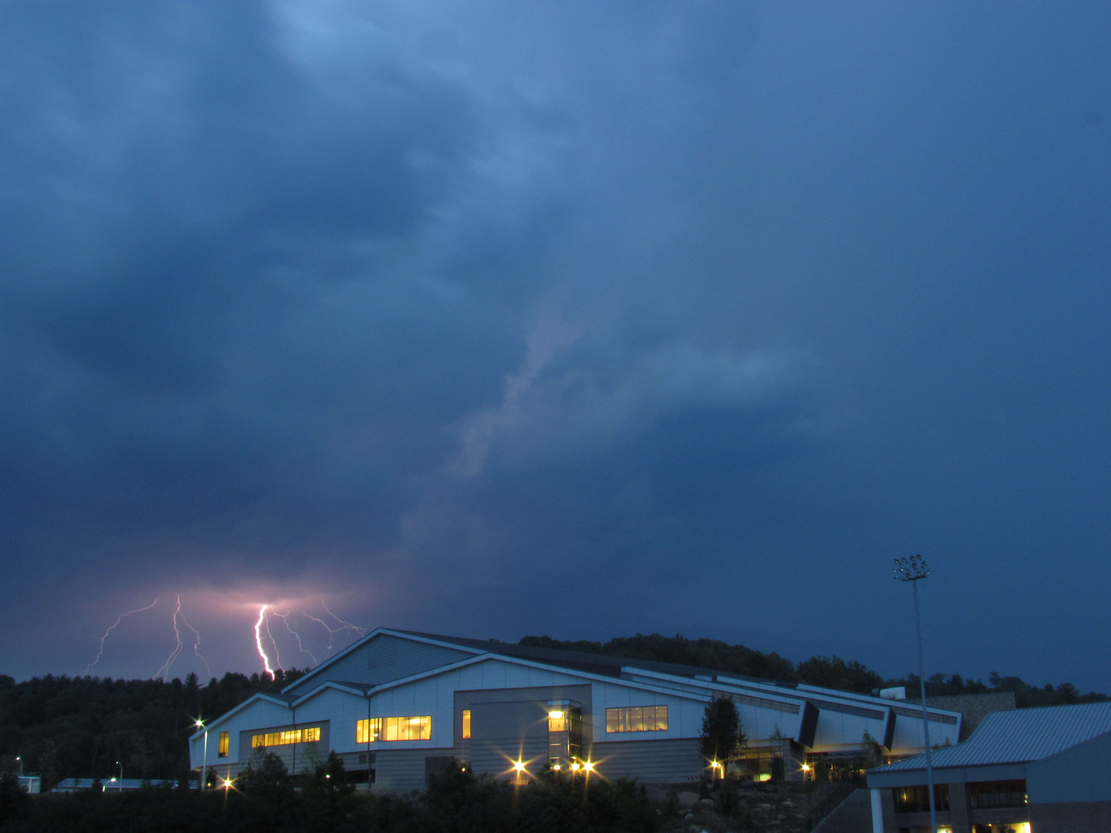 Lightning Over Asheville, North Carolina